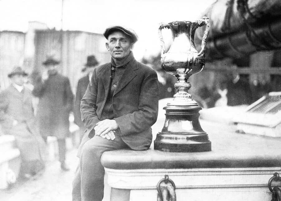 Captain Angus Walters with the International Fishermen's Cup on the deck of Bluenose, 1921